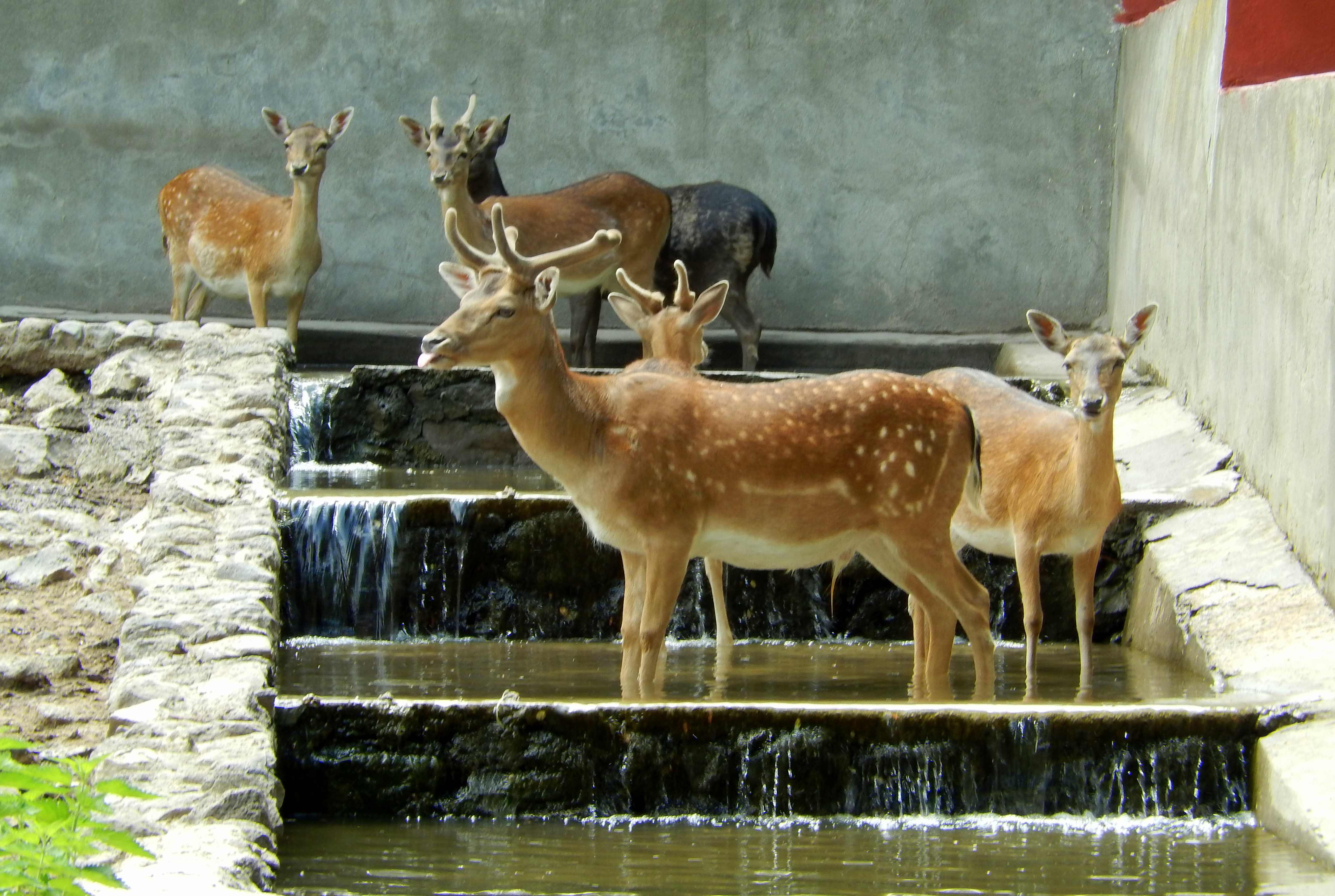 Deer in the water